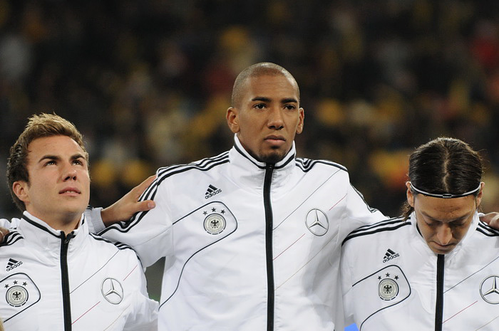 German football players Mario Götze, Jérôme Boateng and Mesut Özil before match against Ukraine